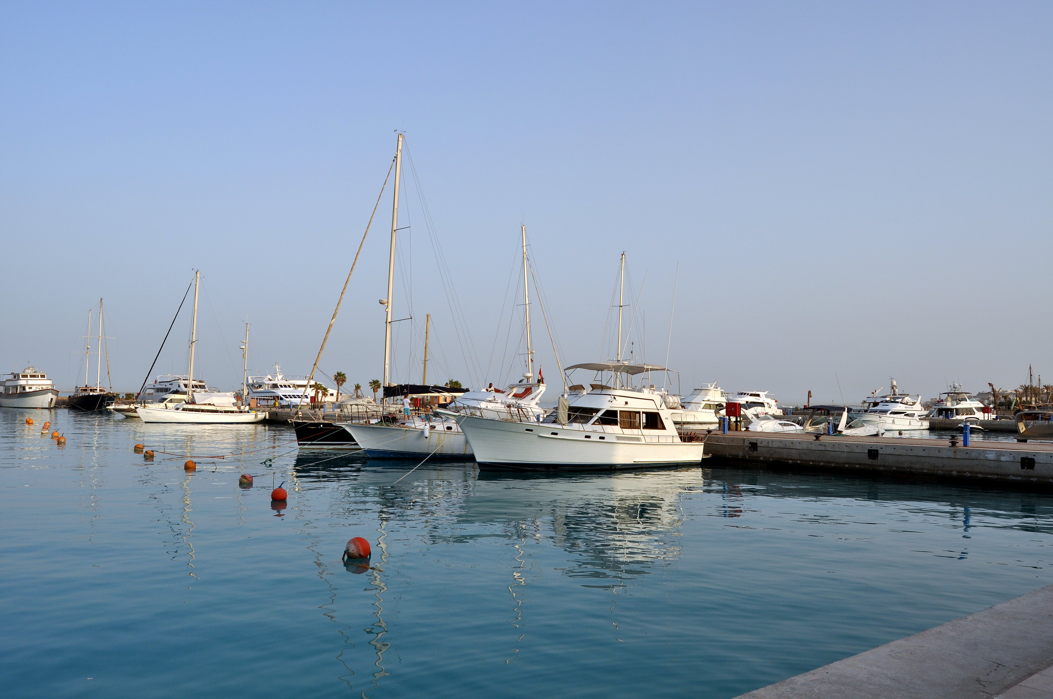 A very interesting place.